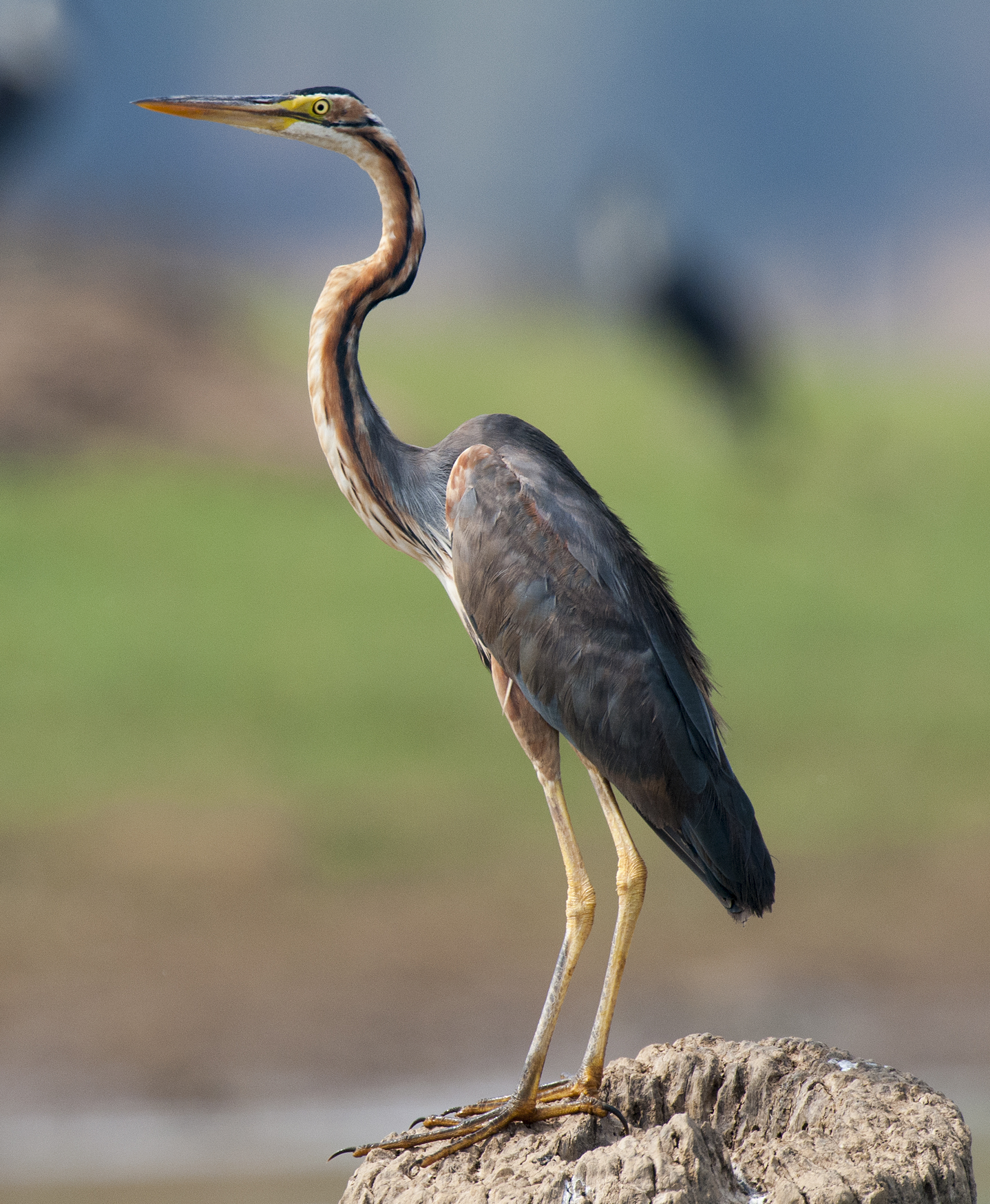 Purple heron in Kabini